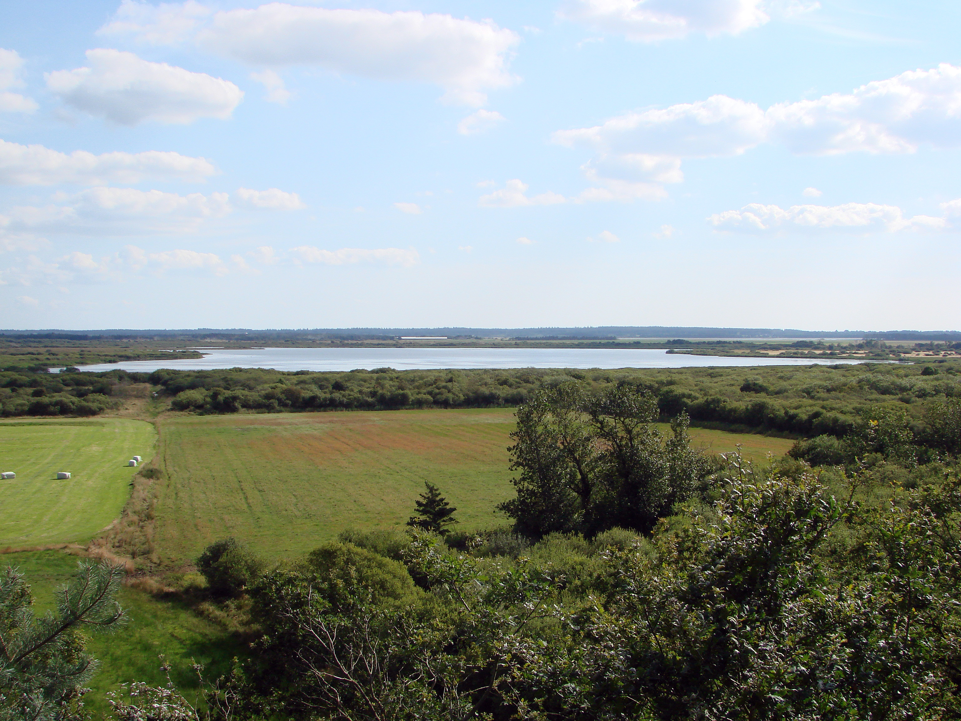 Filsø as seen from north